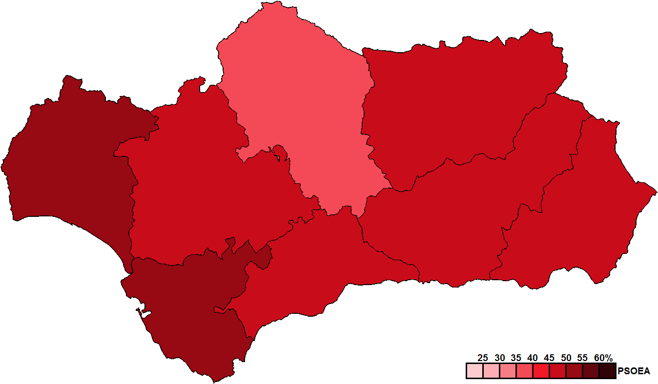 Provincial results for the 1986 Andalusian regional election.